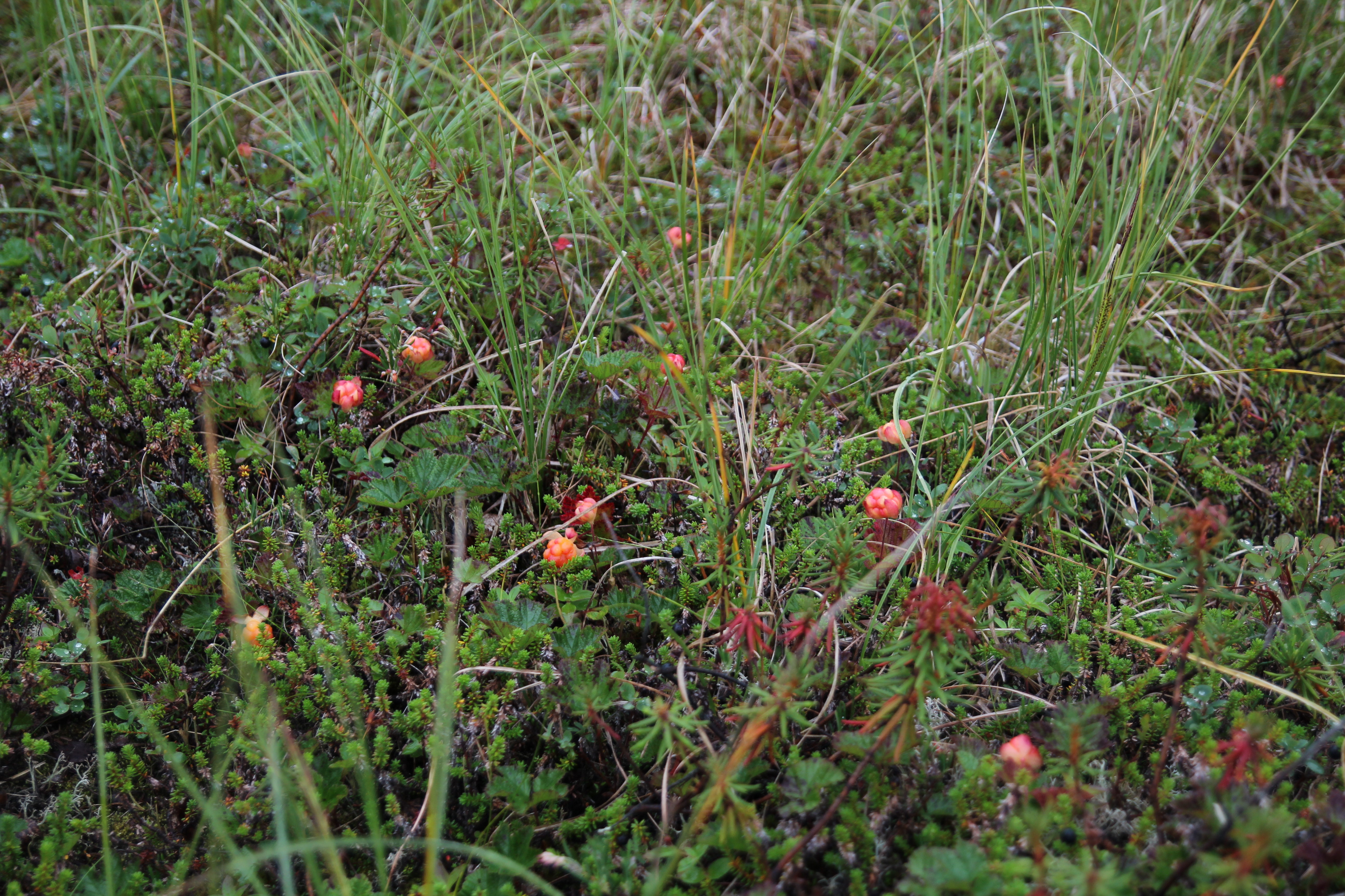 Rubus chamaemorus — Cloudberry. Growing in a swamp in Murmansk Oblast, in Northwest European Russia.